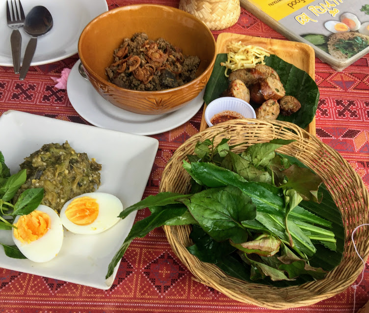 This is northern Thai food consisting of Sai Oua (northern Thai sausage),Laab (spicy salad), and Tam ma khua (eggplant chili paste) from a restaurant in Chiangmai